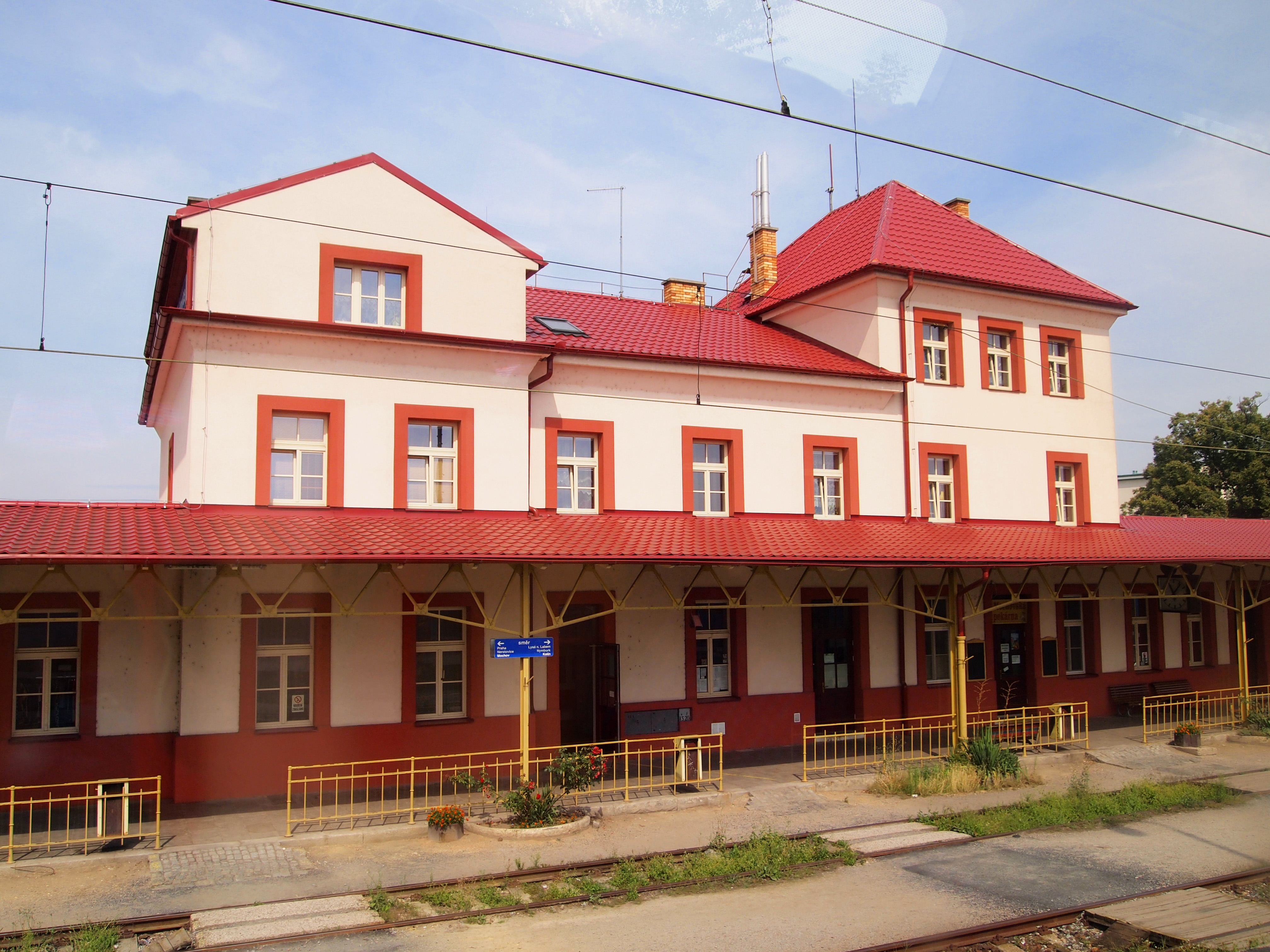 Čelákovice train station. This photograph was taken with an Olympus E-PL1